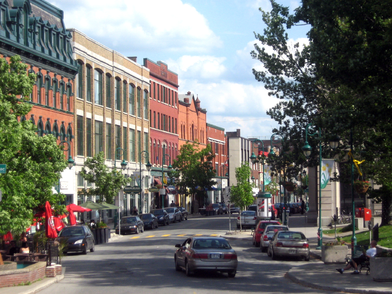 Rue Wellington Nord, coeur historique de la ville de Sherbrooke